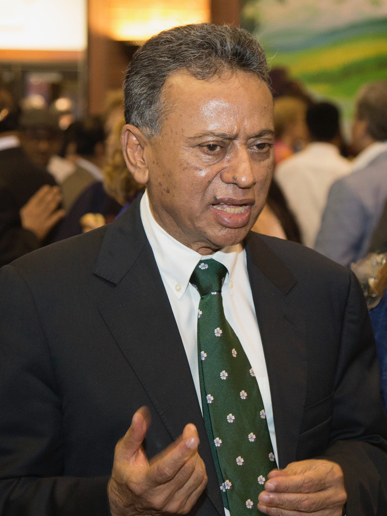 Amir Khasru Mahmud Chowdhury on July 3, 2018 at the U.S. Embassy Dhaka during the celebration of the 242nd Independence Day of the United States of America.